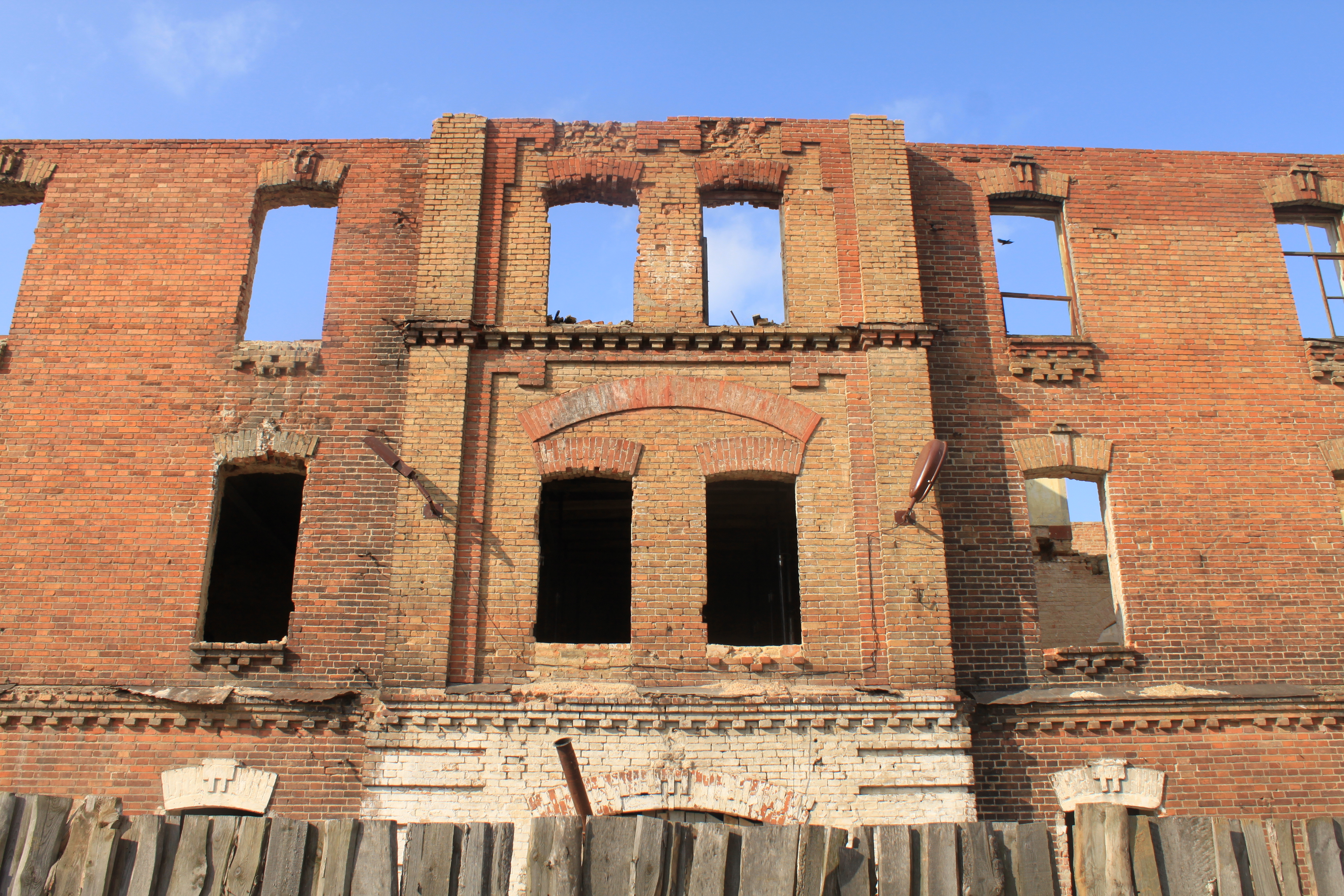 Former building of Bereza Kartuska concentration camp